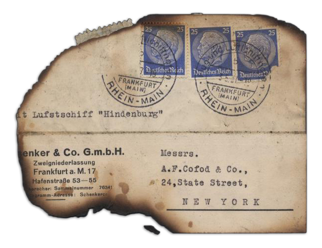 A burned piece of mail that was on board the Hindenburg during its final flight, May 6, 1937.